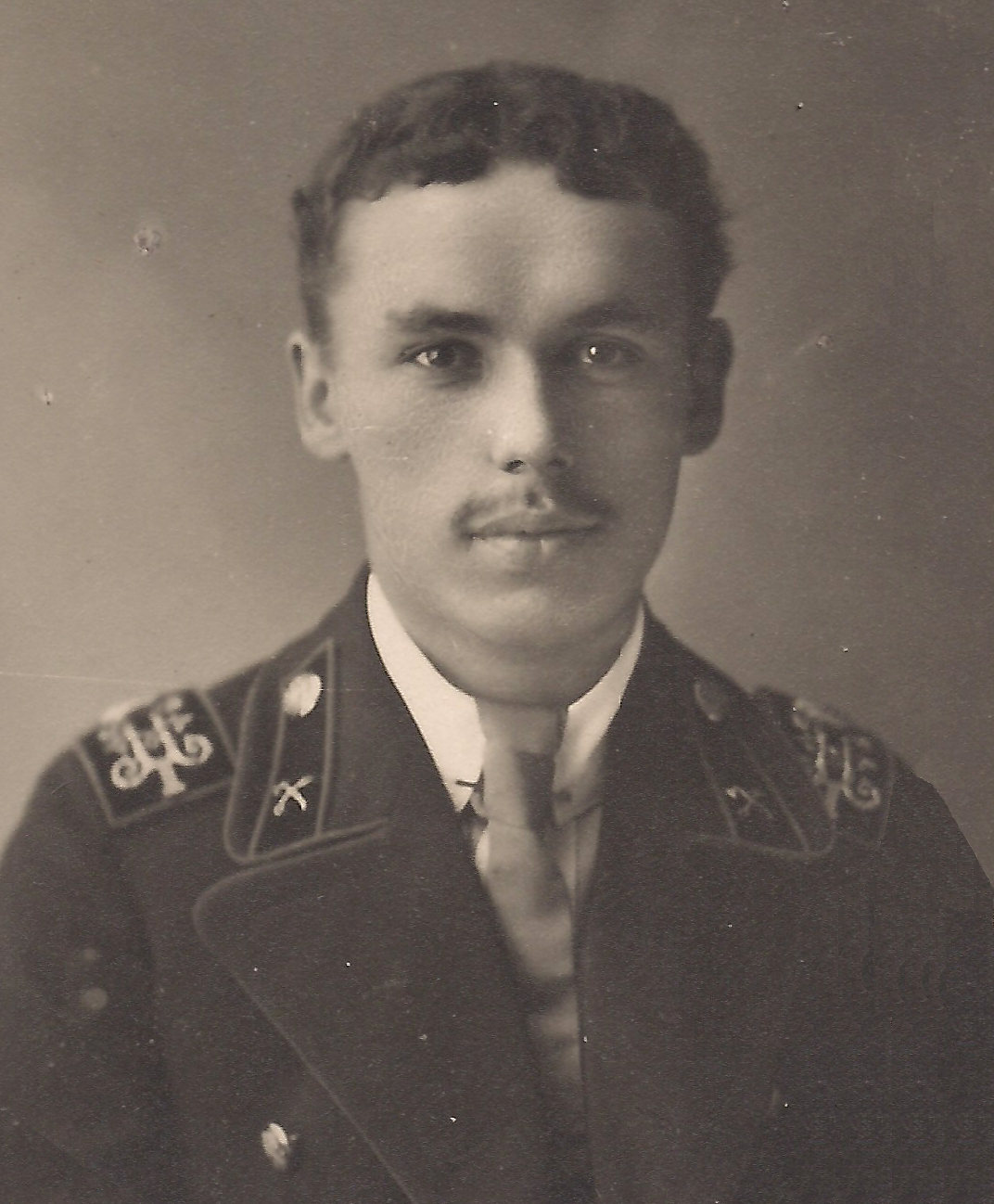 Nikolai Nedonoskov, brother of V.V. Nedonoskov, changed family name for Stepnoys in 1919, Saratov constructivist, as a student